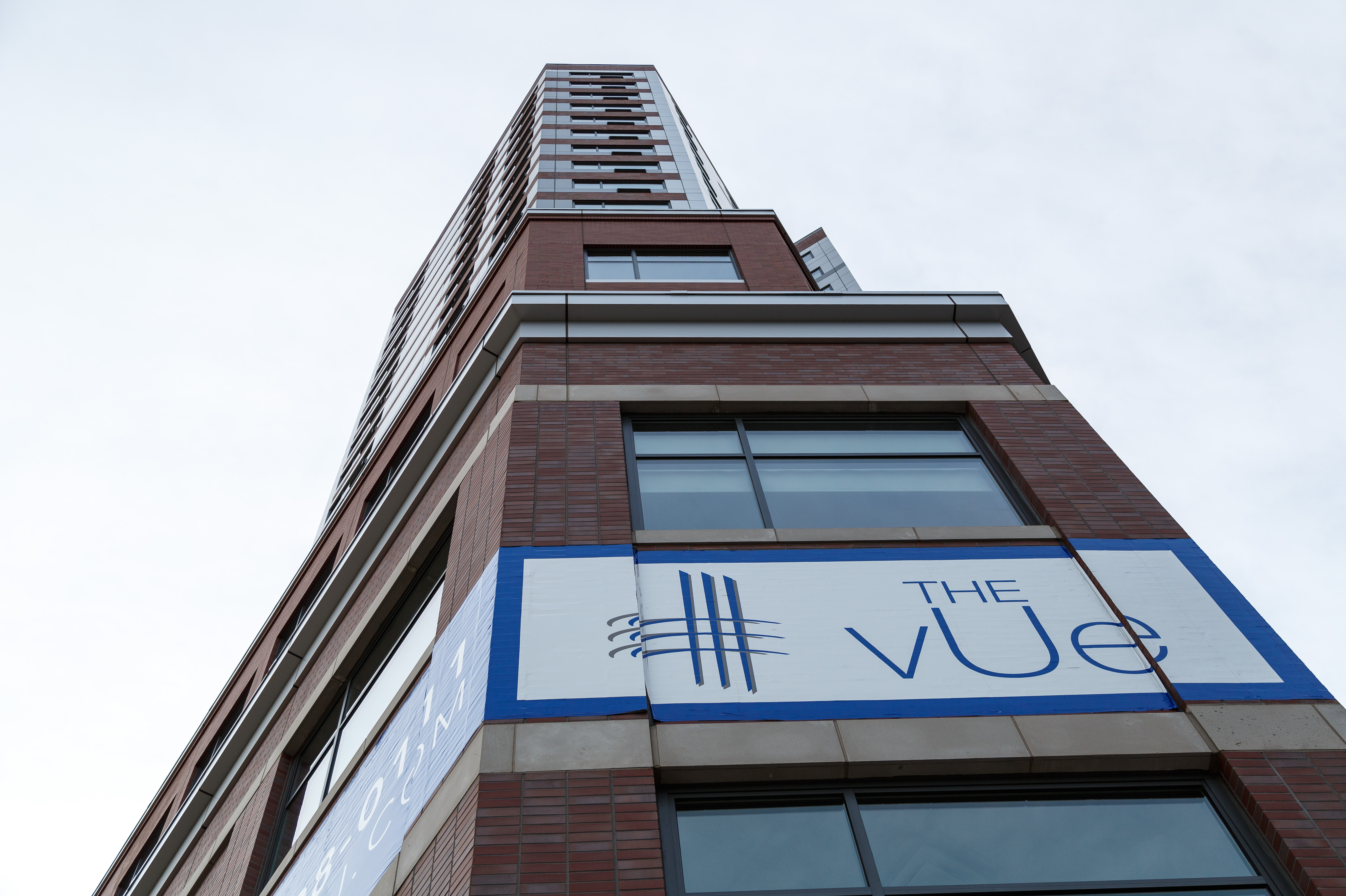 The Vue, a residential highrise in New Brunswick, New Jersey part of the Gateway adjacent to New Brunswick Station